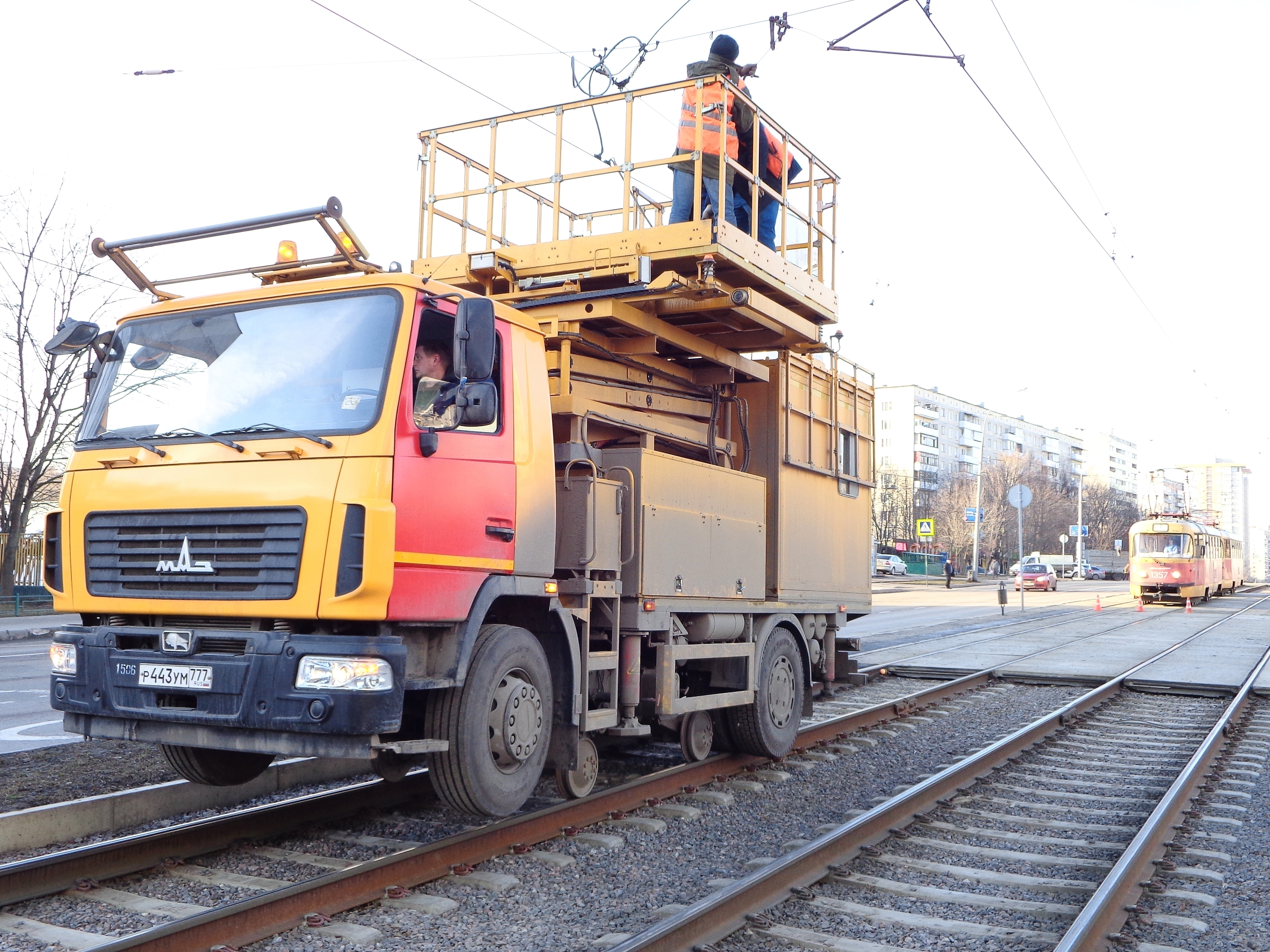 The road-rail vehicle for maintenance of the contact network of urban electric transport.